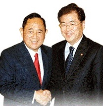 Co-Chairmen of the ICAPP (2010-2012)